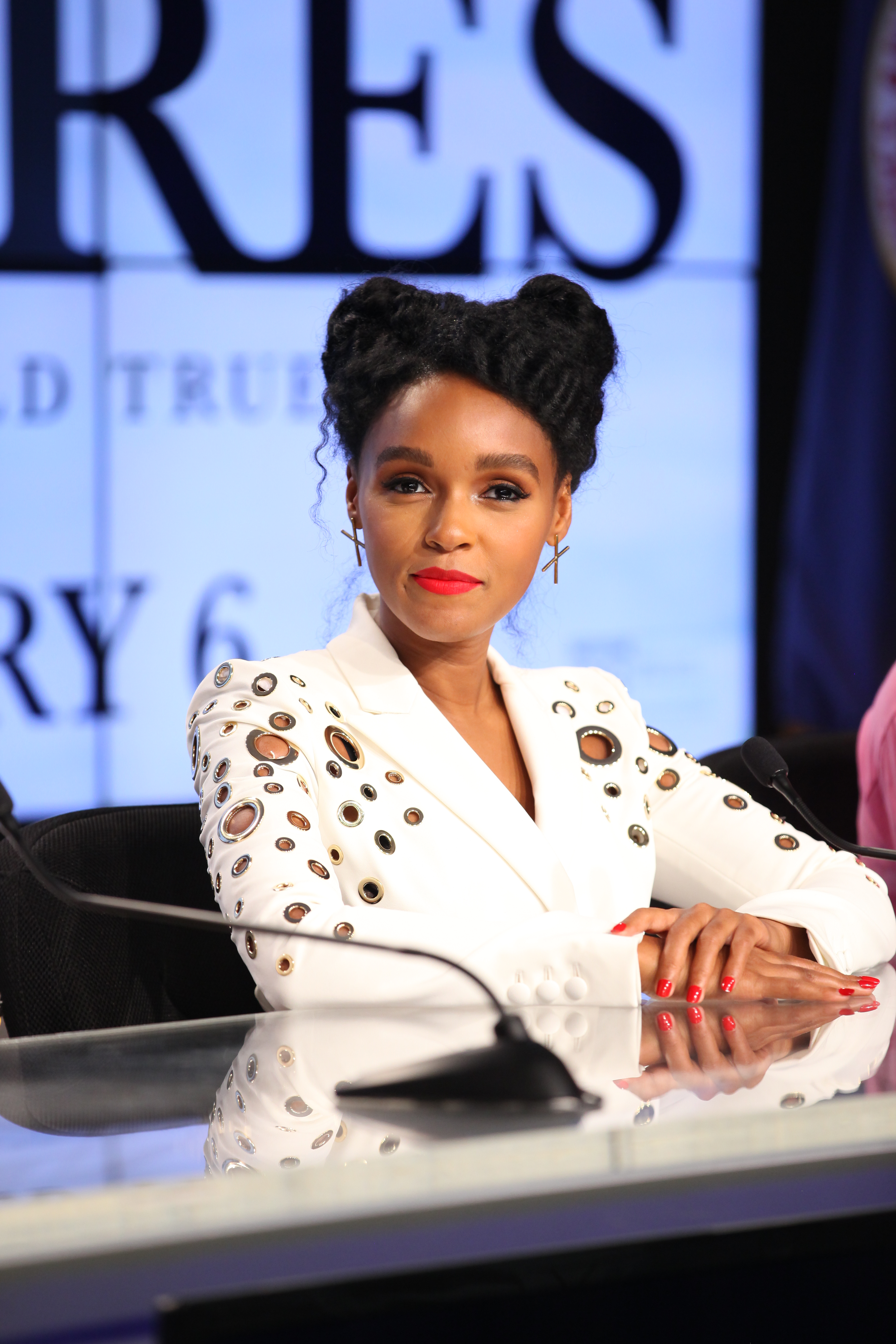 In the Press Site auditorium at the Kennedy Space Center in Florida, Janelle Monáe, speaks to members of the media during a news conference with other key individuals involved in the upcoming motion picture "Hidden Figures." The movie is based on the book of the same title, by Margot Lee Shetterly. It chronicles the lives of Katherine Johnson, Dorothy Vaughan and Mary Jackson (portrayed by Monáe), three African-American women who worked for NASA as human "computers.” Their mathematical calculations were crucial to the success of Project Mercury missions including John Glenn’s orbital flight aboard Friendship 7 in 1962. The film is due in theaters in January 2017. Photo credit: NASA/Kim Shiflett NASA image use policy.